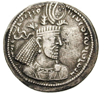 Coin of Narseh, Sasanian king